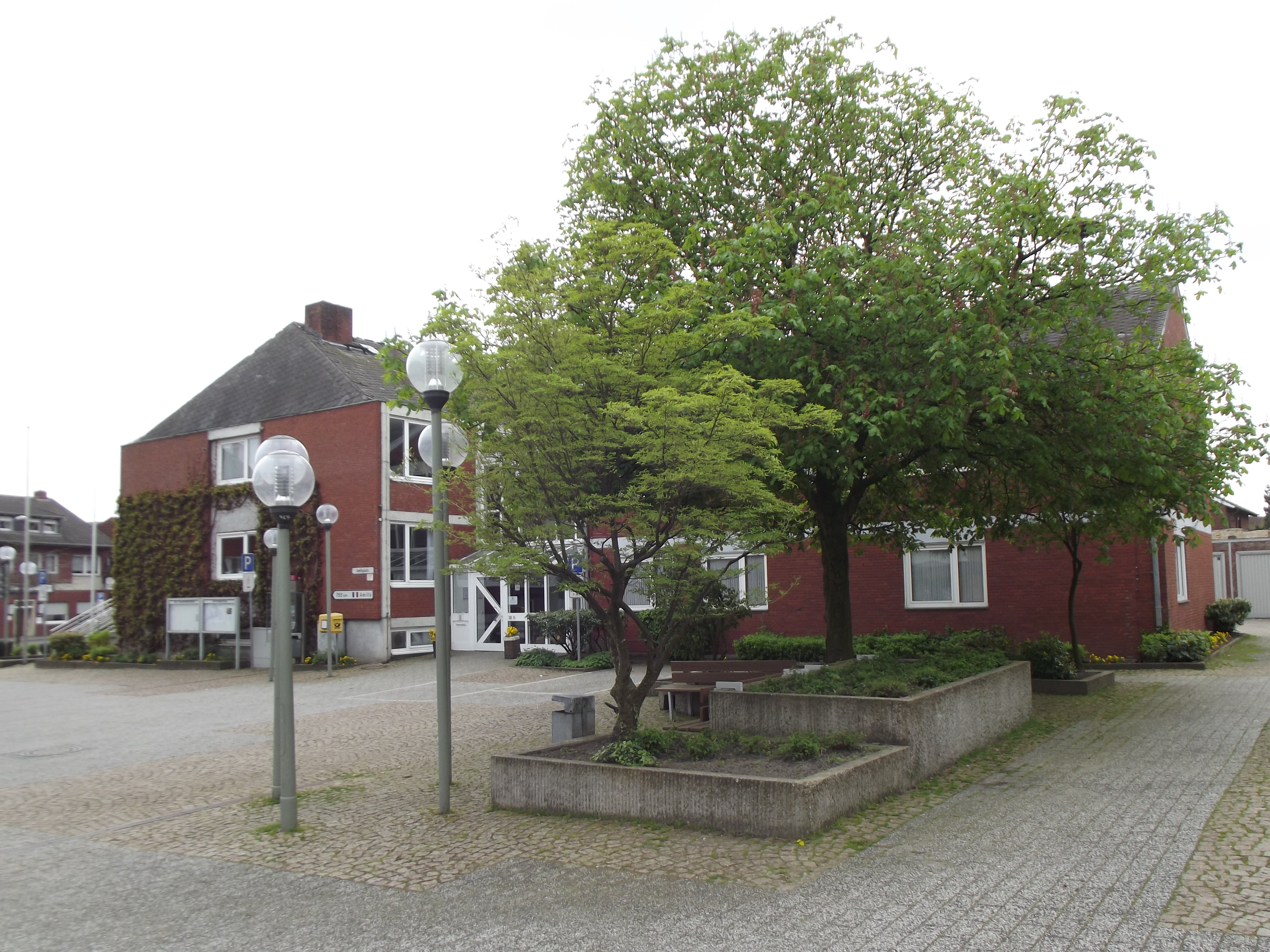 A place in German town Nordwalde, named after its twintown Amilly